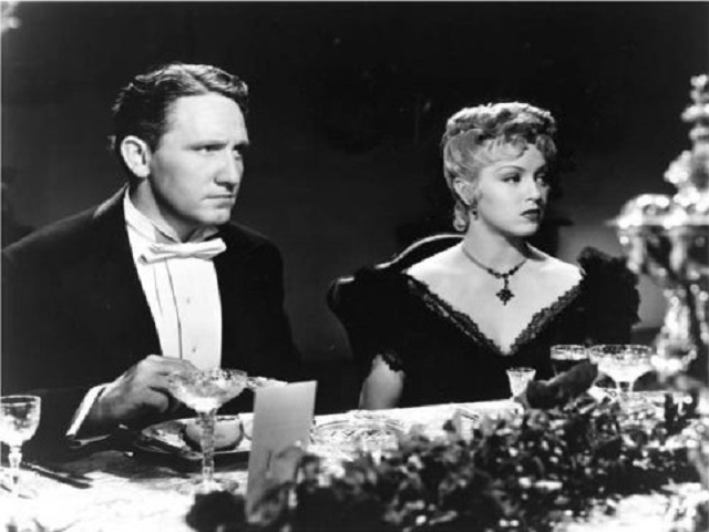 Publicity photo of Spencer Tracy & Lana Turner taken for film Dr. Jekyll and Mr. Hyde (1941). See also film still. No copyright notice.